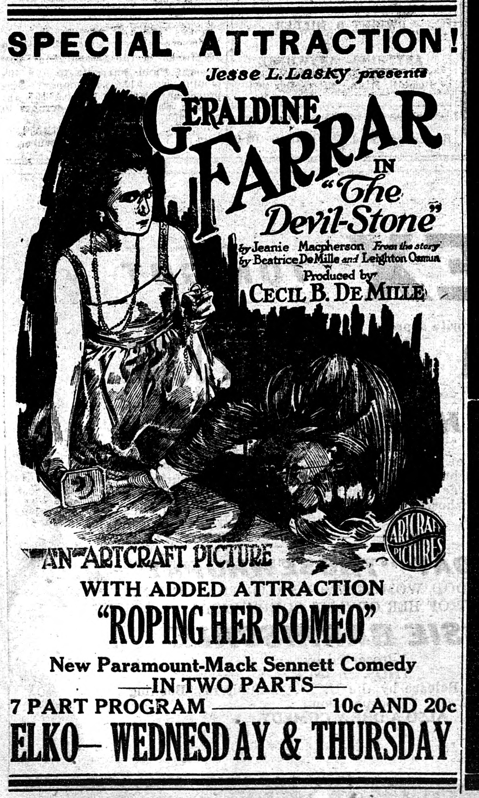 The Devil-Stone is a 1917 American mystery film directed by Cecil B. DeMille and co-written by his mother Beatrice and his some time lover Jeanie MacPherson. This is from a newspaper advertisement.